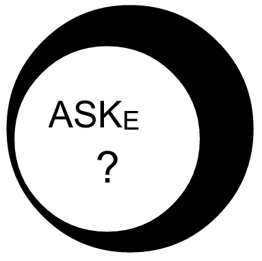 Logo of the Association for Skeptical Enquiry or ASKE.